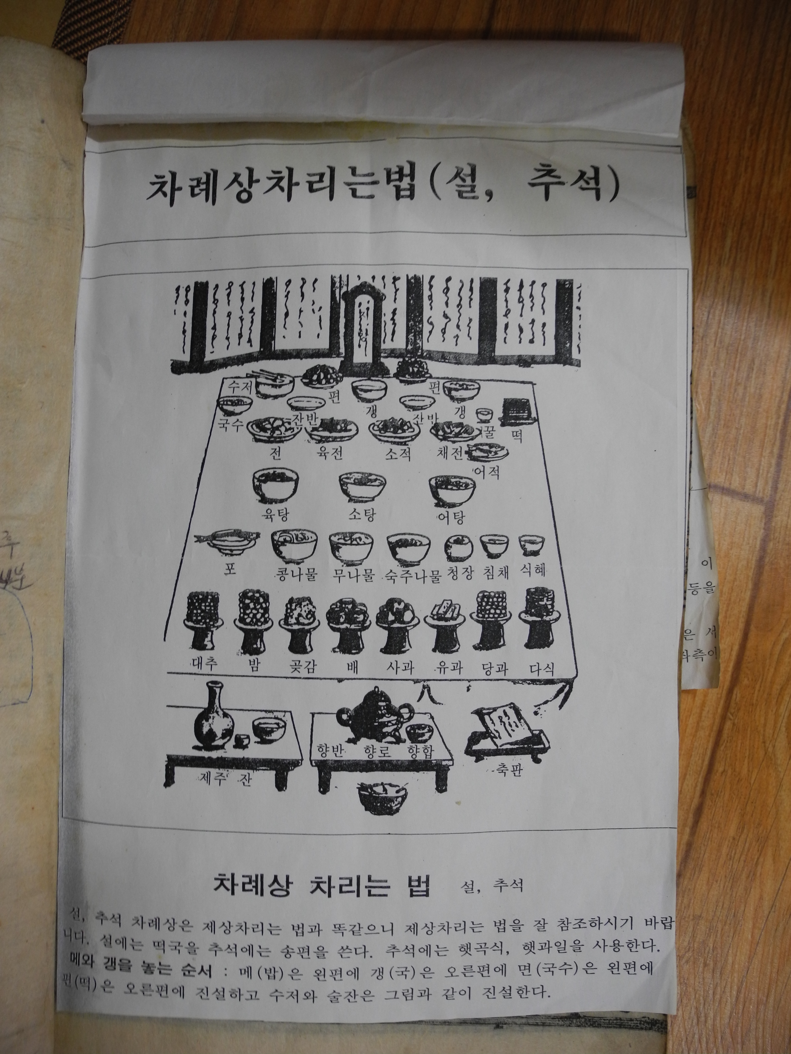 Chuseok - table-arrangement